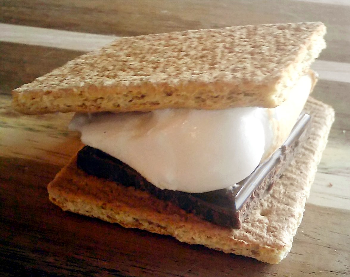 A picture of a Smores treat.